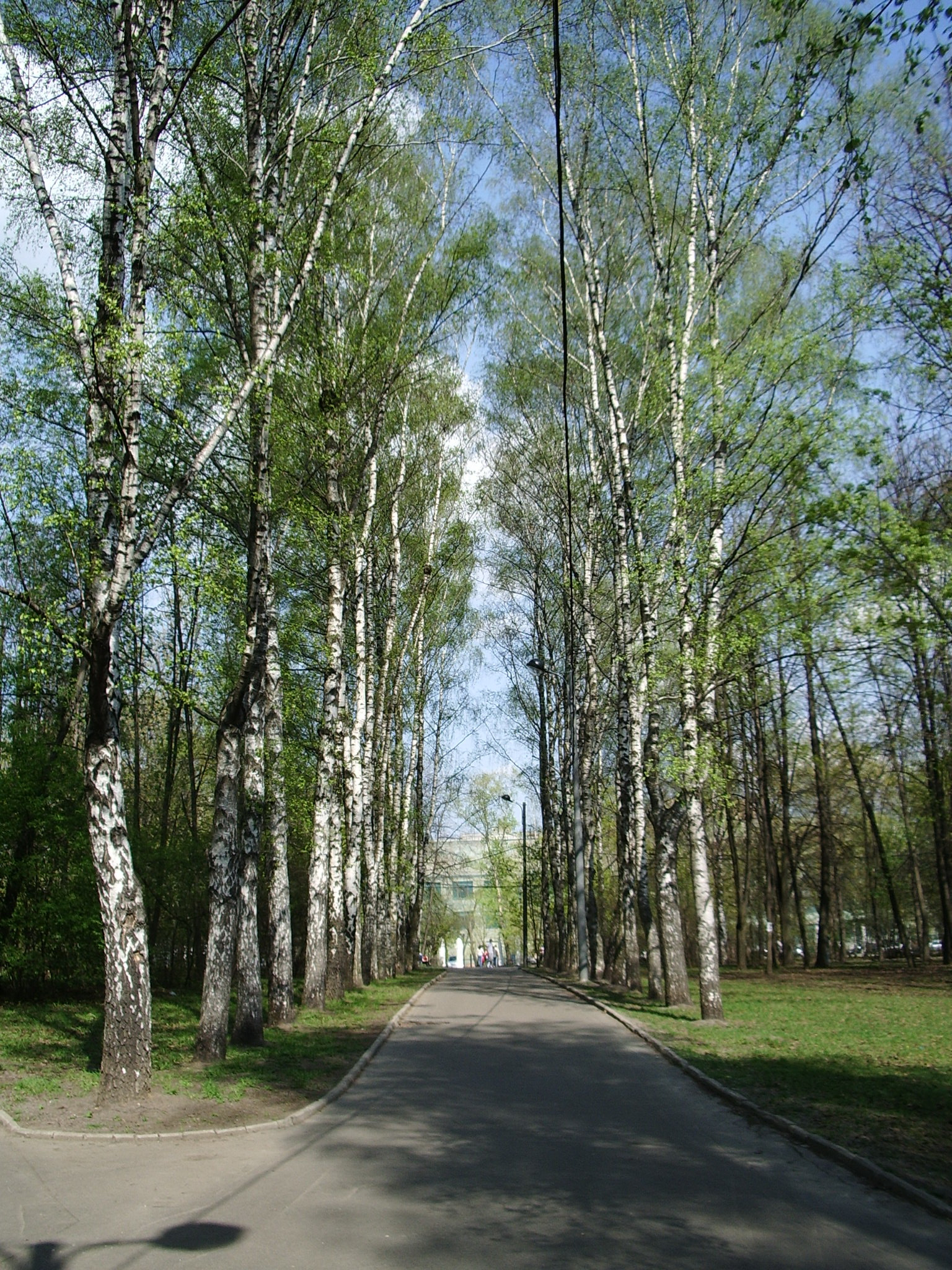 Vorovsky park in Moscow.